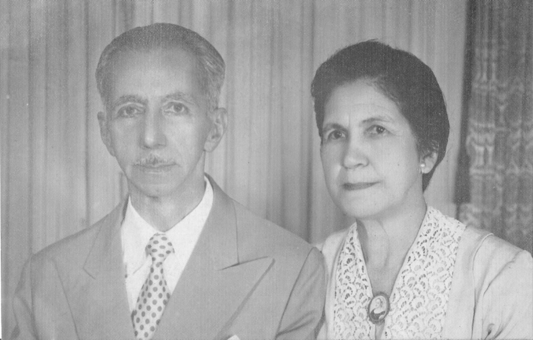 Donizetti Martins de Araújo e Coriolina Augusta de Loyola.